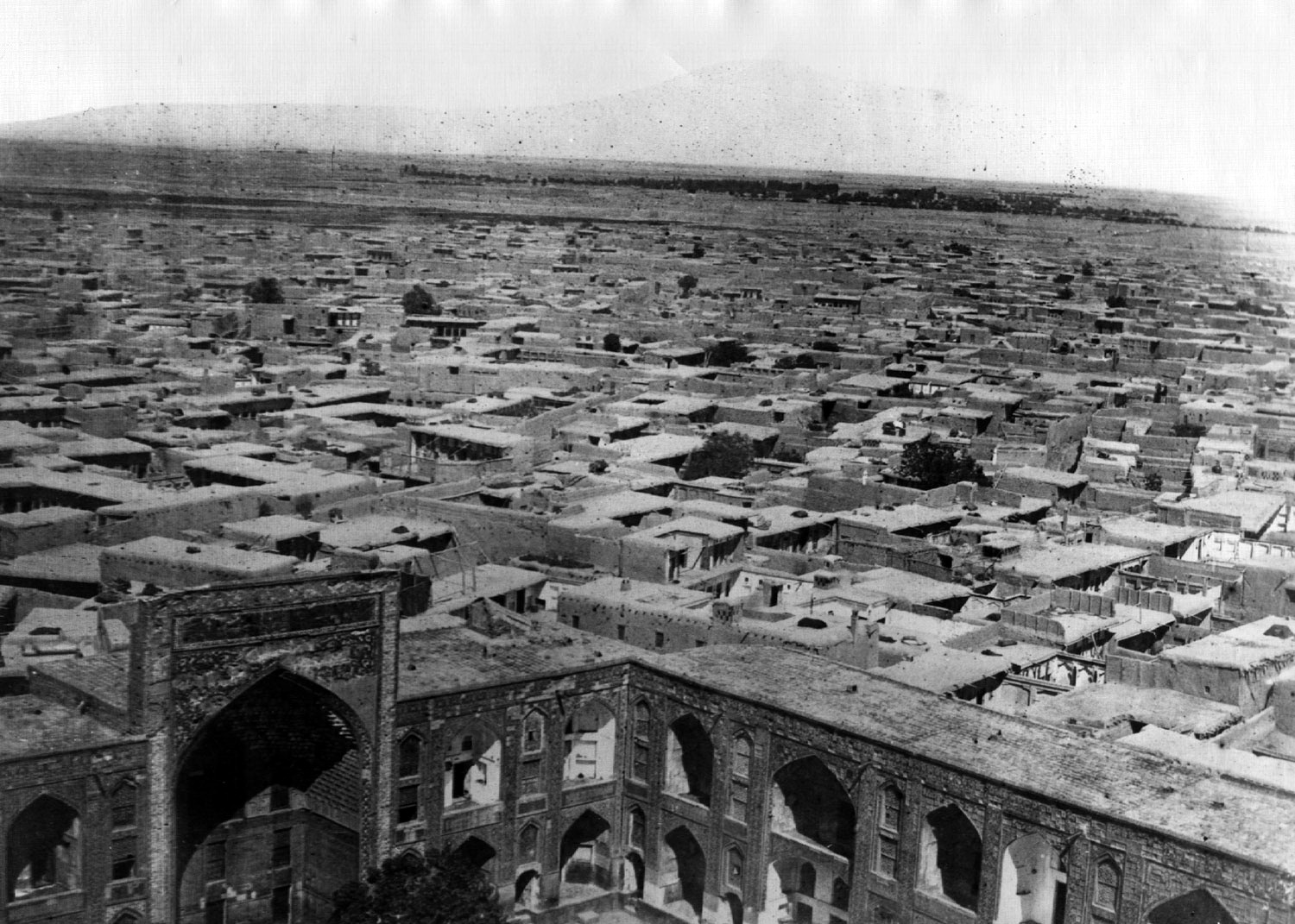 Mashhad in 1858, Mirza Ja'afar Mahrassah